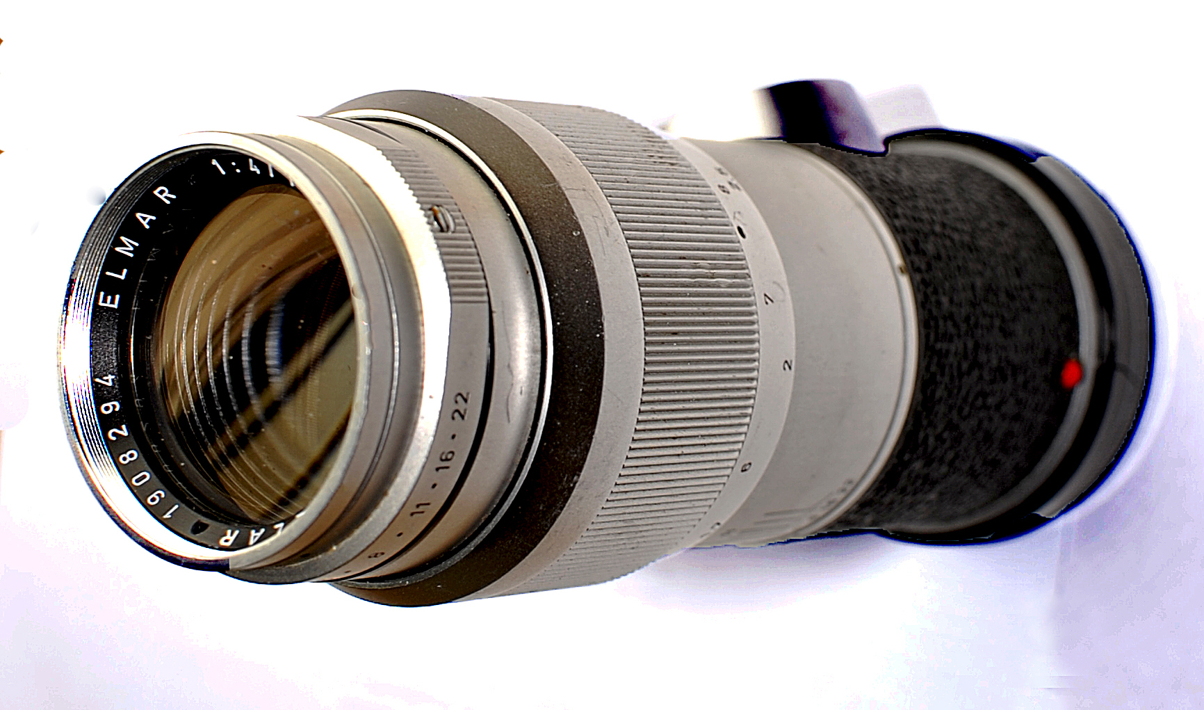 Elmar 135/4.0 mount 42 Leica lens